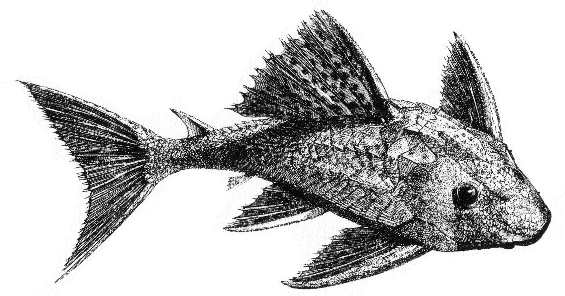 "Acari Fish (Loricaria duodecimalis)" = Pterygoplichthys etentaculatus (Spix & Agassiz, 1829). Version with caption